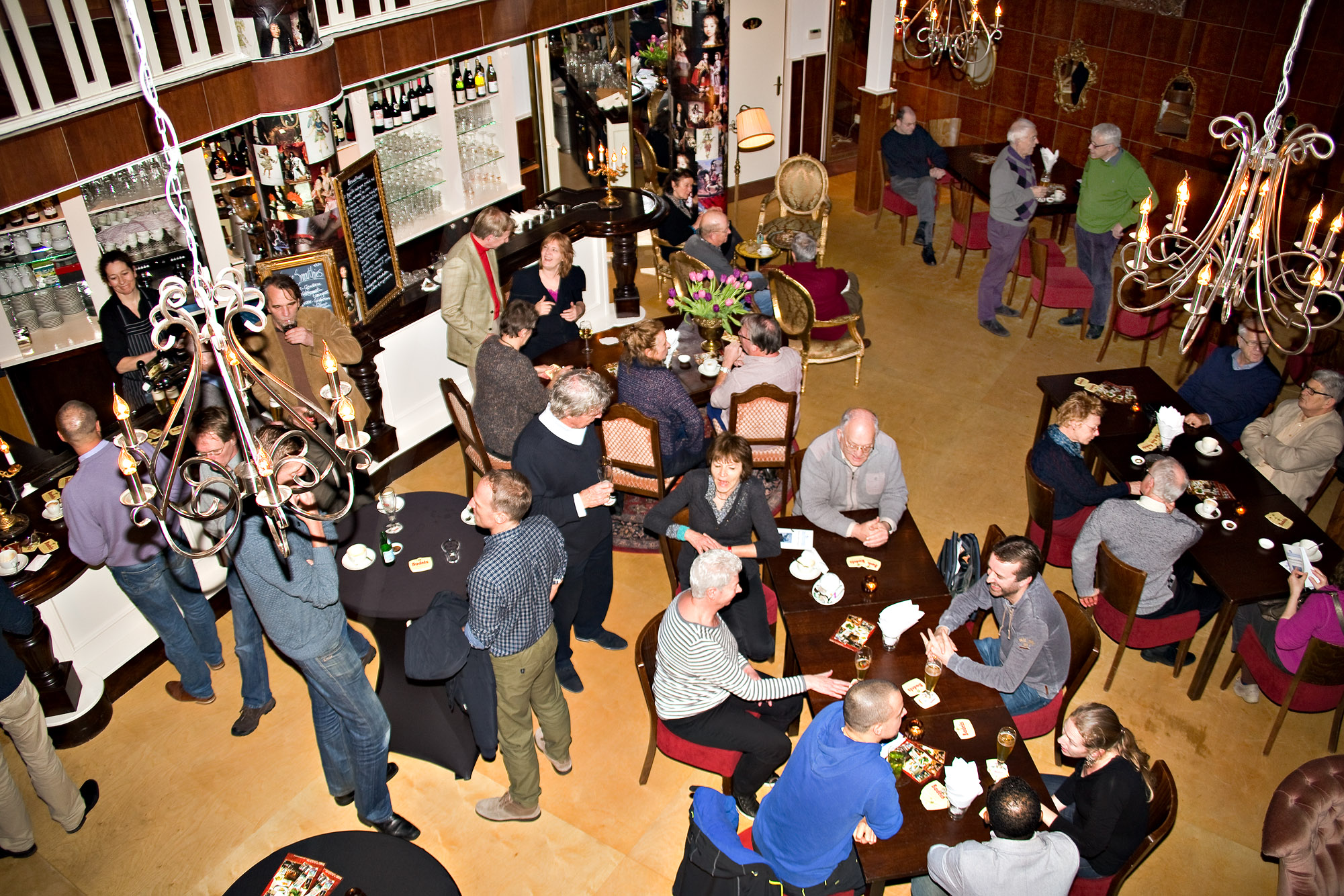 Enlightenment in the Pub The Hague, 9 February 2015 in Café Restaurant Louis